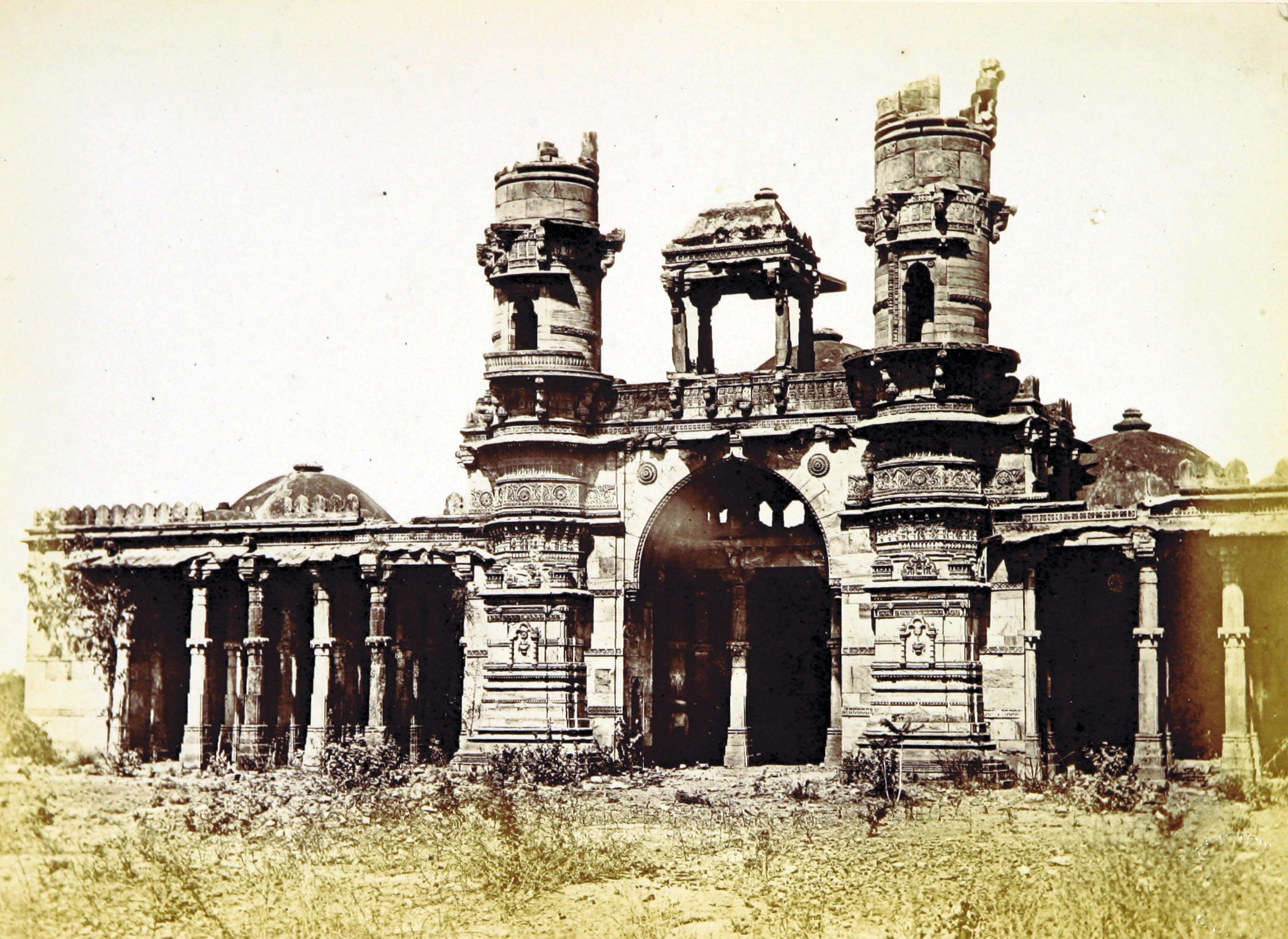 Image taken from: Title: "Architecture at Ahmedabad, the Capital of Goozerat, photographed by Colonel Biggs, ... With an historical and descriptive sketch, by T. C. H., ... and architectural notes by J. Fergusson, etc" Author: HOPE, Theodore Cracraft - Sir, K.C.S.I Contributor: BIGGS, Thomas. Contributor: FERGUSSON, James - Architect Shelfmark: "British Library HMNTS 10057.f.17.", "British Library OC V 6665" Page: 145 Place of Publishing: London Date of Publishing: 1866 Issuance: monographic Identifier: 001730119 Note: The colours, contrast and appearance of these illustrations are unlikely to be true to life. They are derived from scanned images that have been enhanced for machine interpretation and have been altered from their originals. If you wish to purchase a high quality copy of the page that this image is drawn from, please order it here. Please note that you will need to enter details from the above list - such as the shelfmark, the page, the book's volume and so on - when filling out your order. Following this or the link above will take you to the British Library's integrated catalogue. You will be able to download a PDF of the book this image is taken from, as well as view the pages up close with the 'itemViewer'. Click on the 'related items' to search for the electronic version of this work. Click here to see all the illustrations in this book and click here to browse other illustrations published in books in the same year. Please click on the tags shown on the right-hand side for other ways to browse the illustrations.